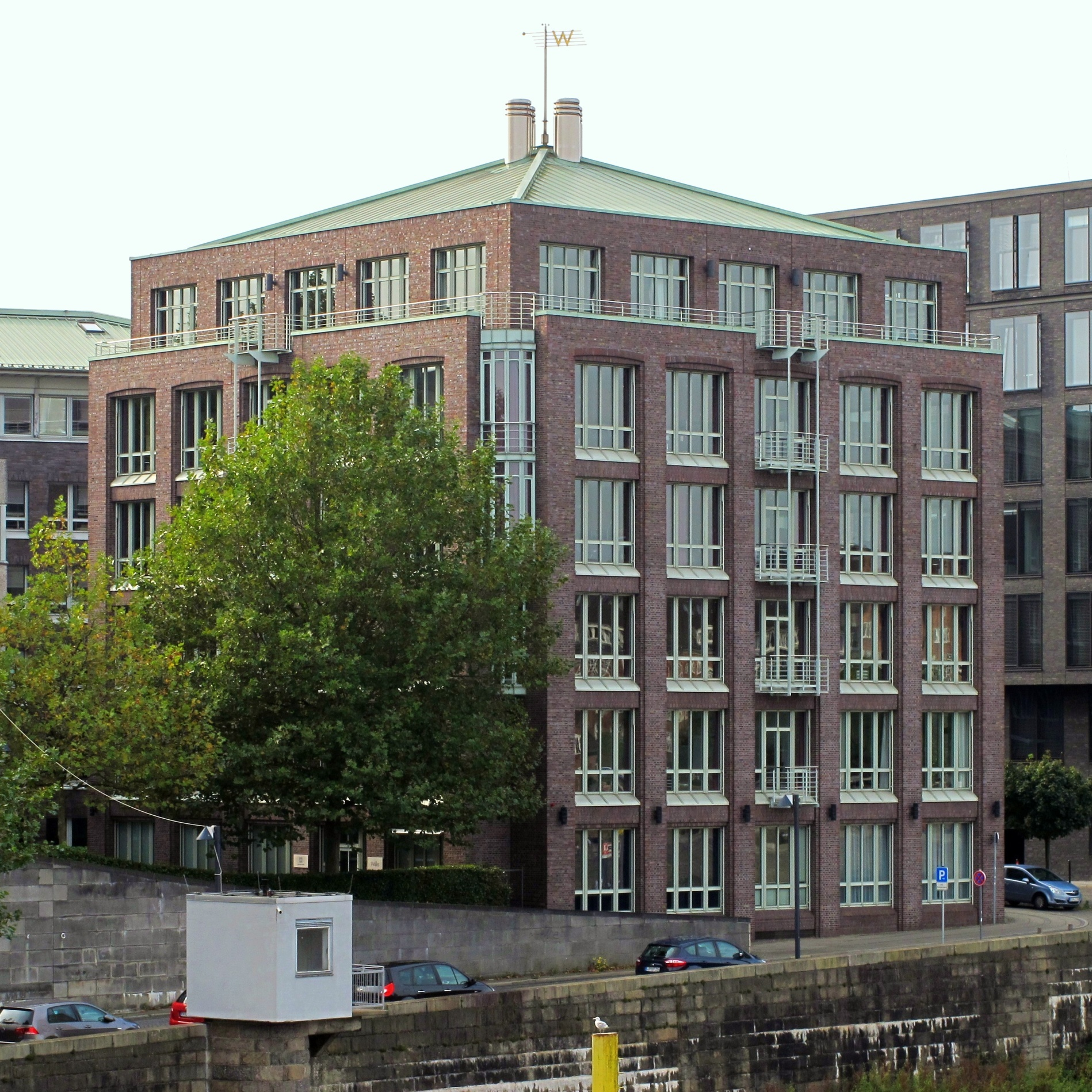 Office building Herrlichkeit 1 (2014-09-28)